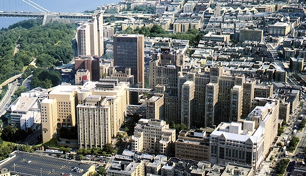 Aerial View of Columbia Medical Center